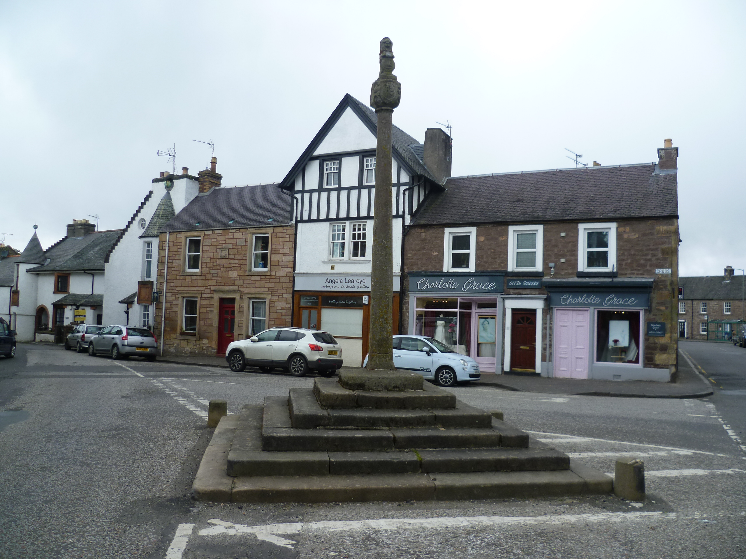 Doune mercat cross, near Stirling